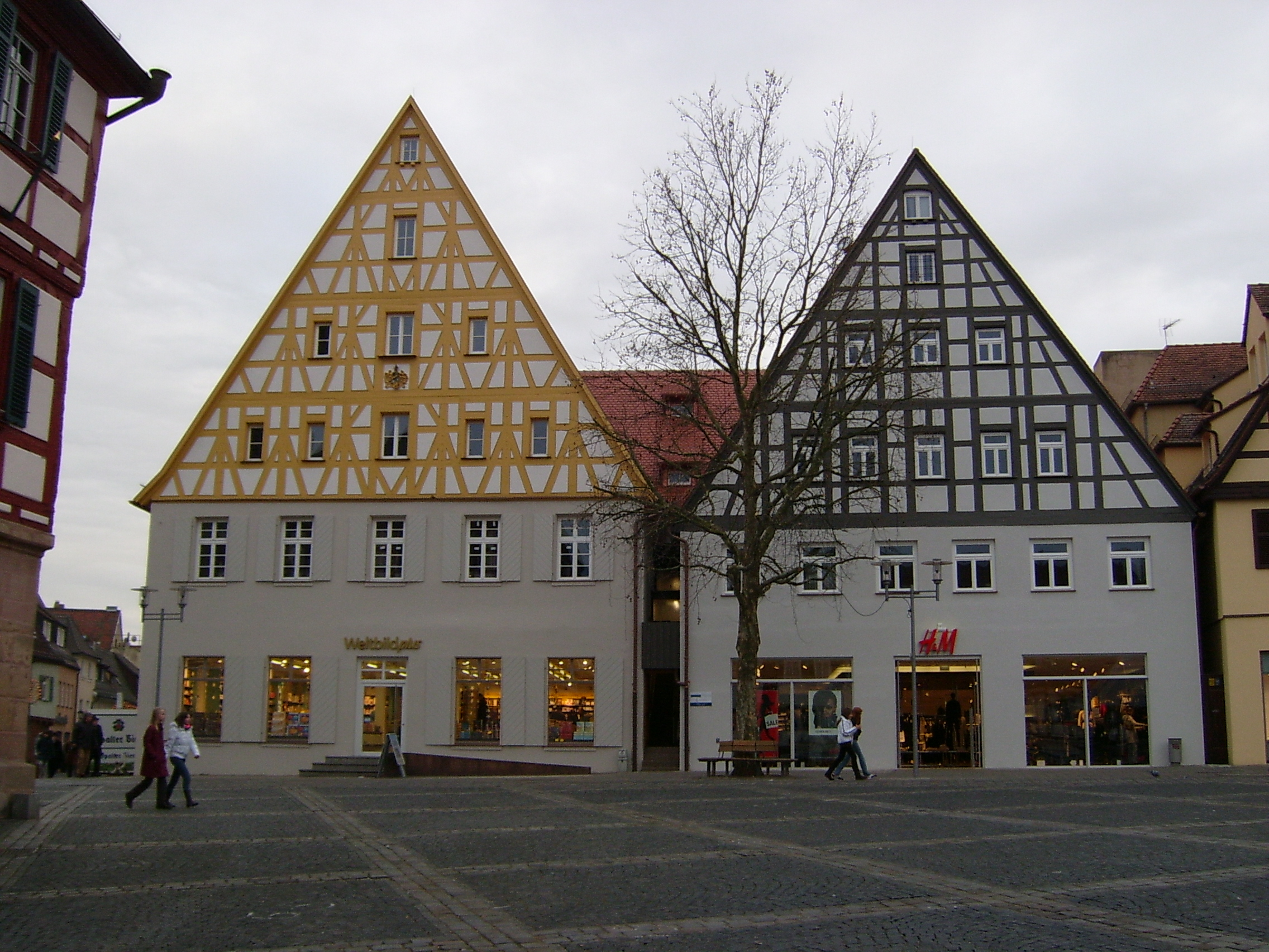 Schwabach, houses Königsplatz nrs. 21 (so called "Oberamtshaus", former residence of the governor of the markgraves of Brandenburg-Ansbach) and 23 (from left to right).